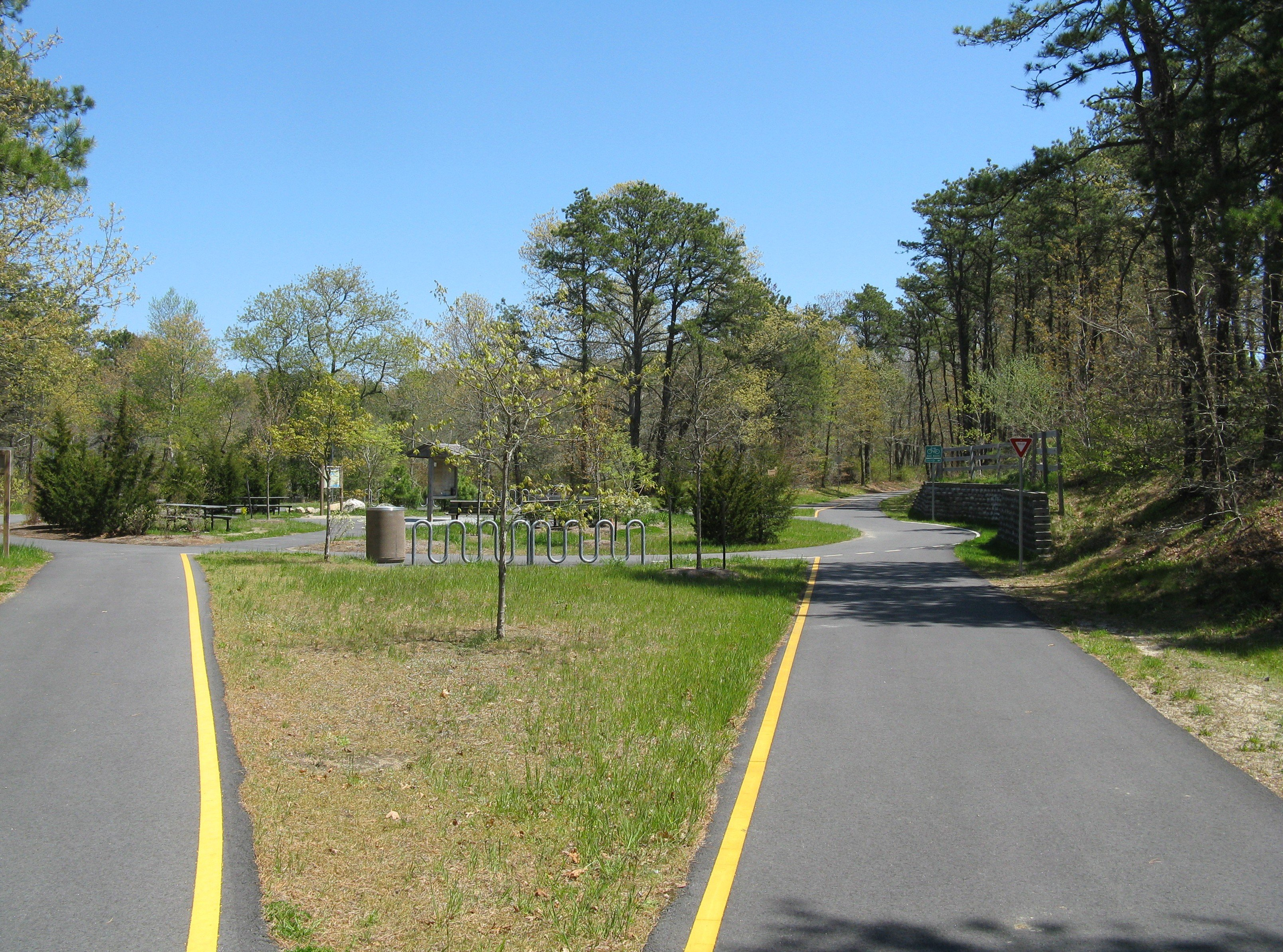 Cape Cod Rail Trail Rotary, Harwich Massachusetts Intersection with Old Colony Rail Trail to Chatham